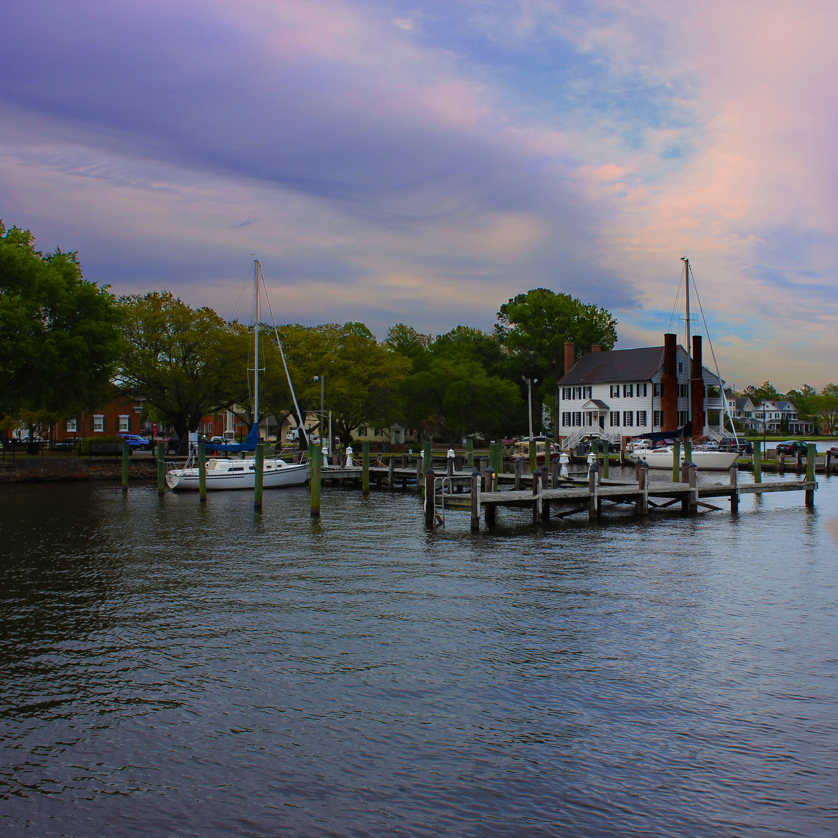 Taken near my home